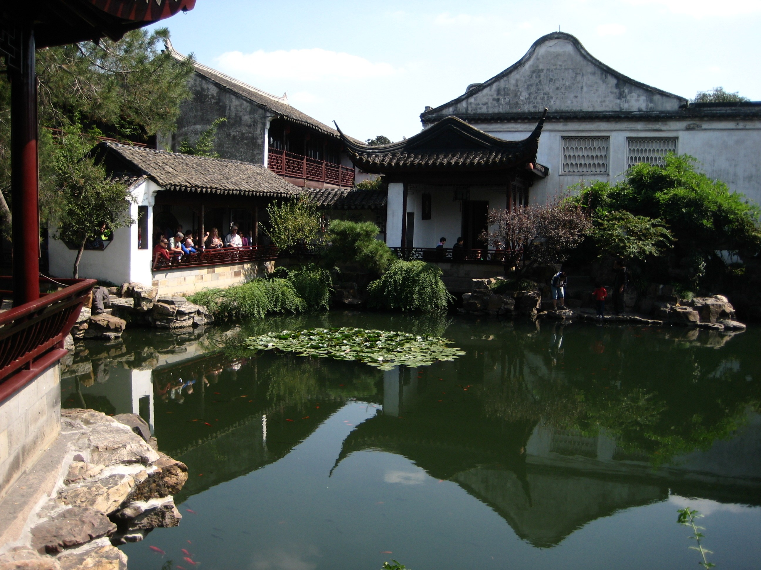 Master of the Nets Garden in Suzhou